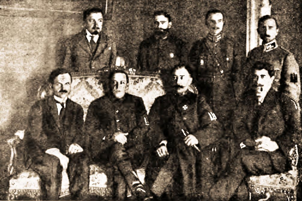 Government of Ukraine (UNR) 1920.Symon Petlura in the centre.